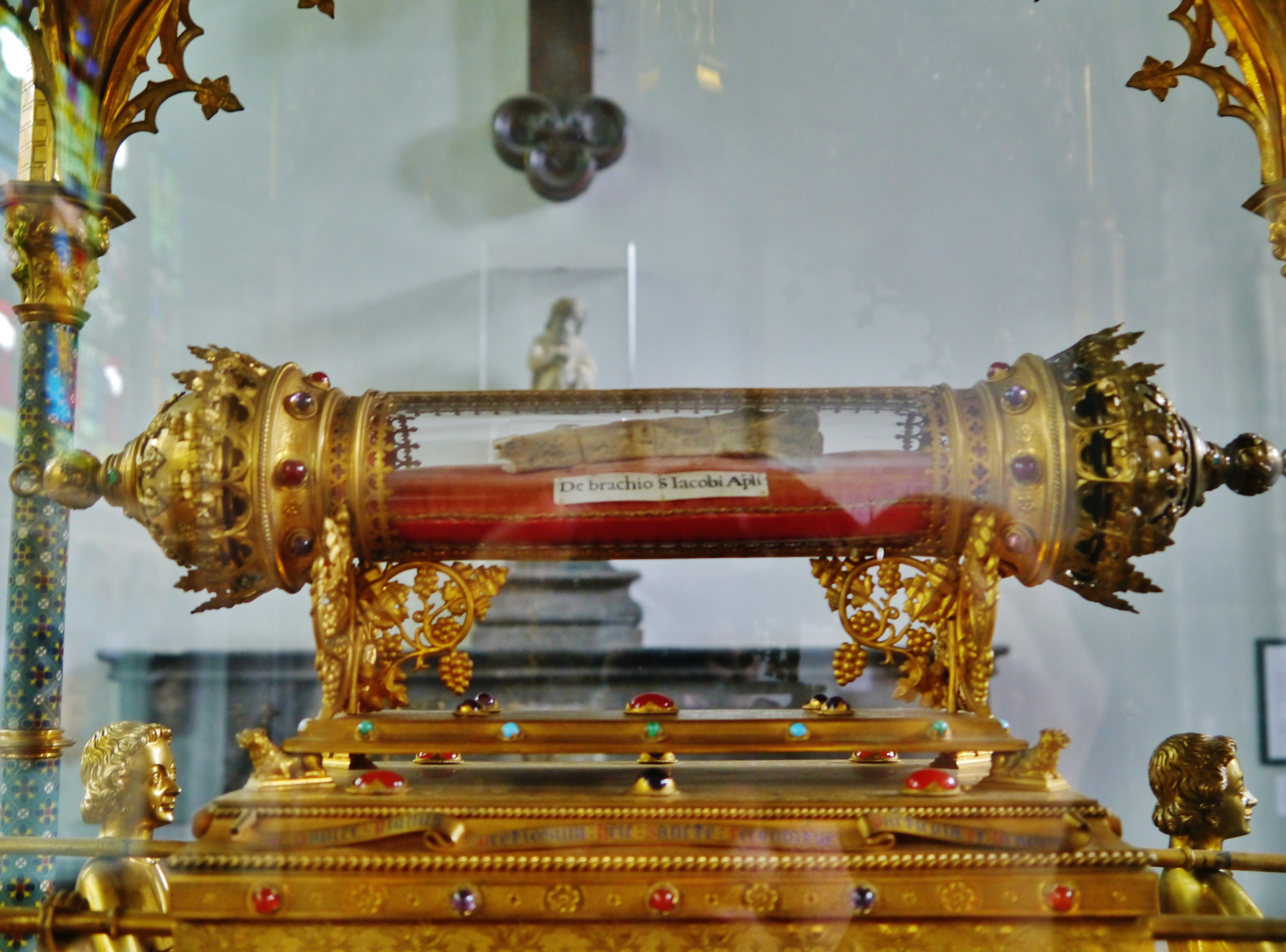 Relic inside St. James the Miner, Liège, Province of Liège, Wallonia, Belgium